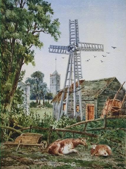 painting of windmill at Andreas, Isle of Man